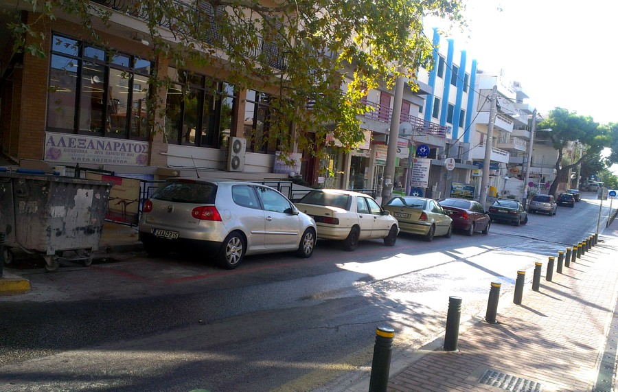 geitonia in Nea Erytrea